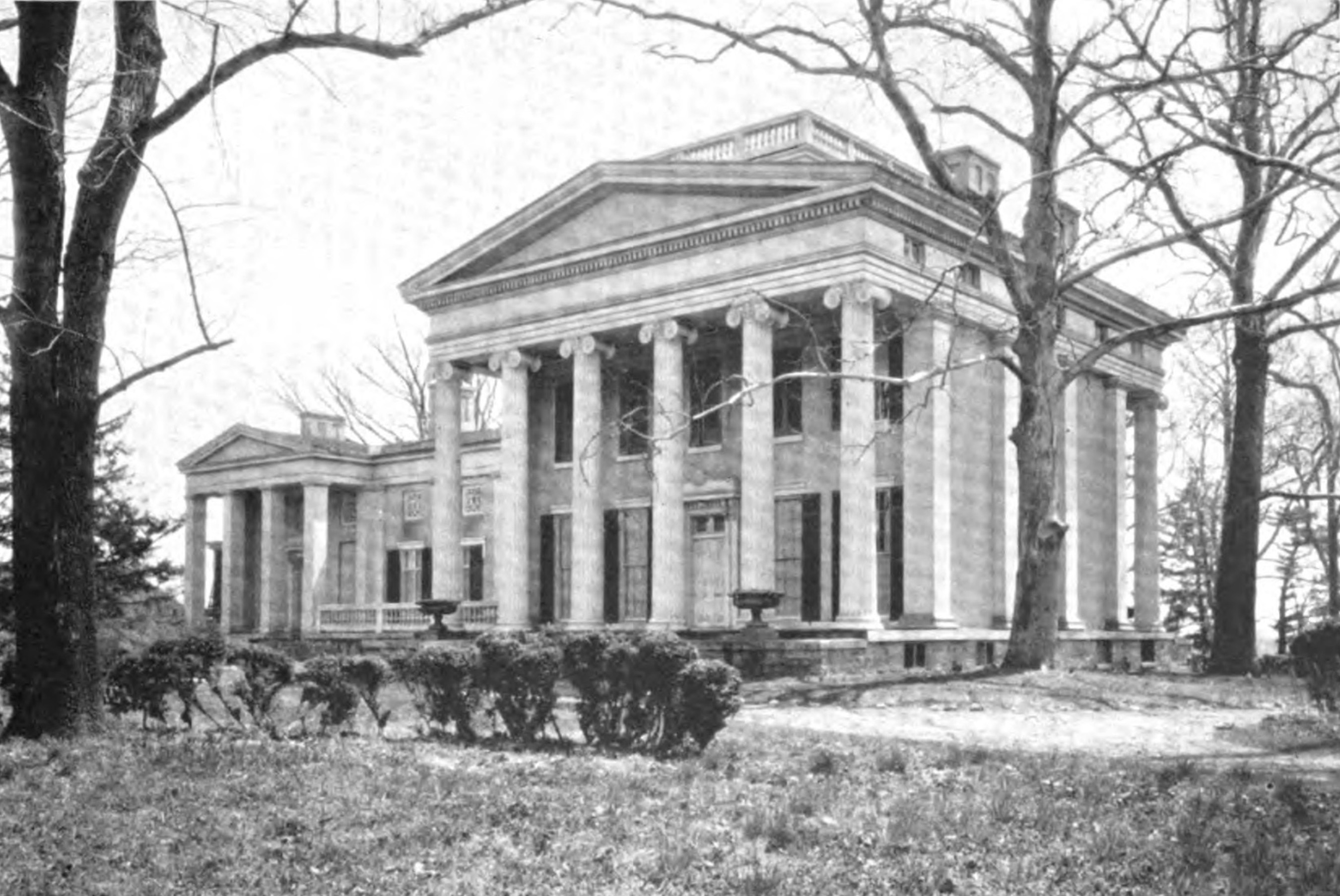 "Fatland" (Wetherill Estate), Pawlings Road, Audubon, Pennsylvania, from the northwest.